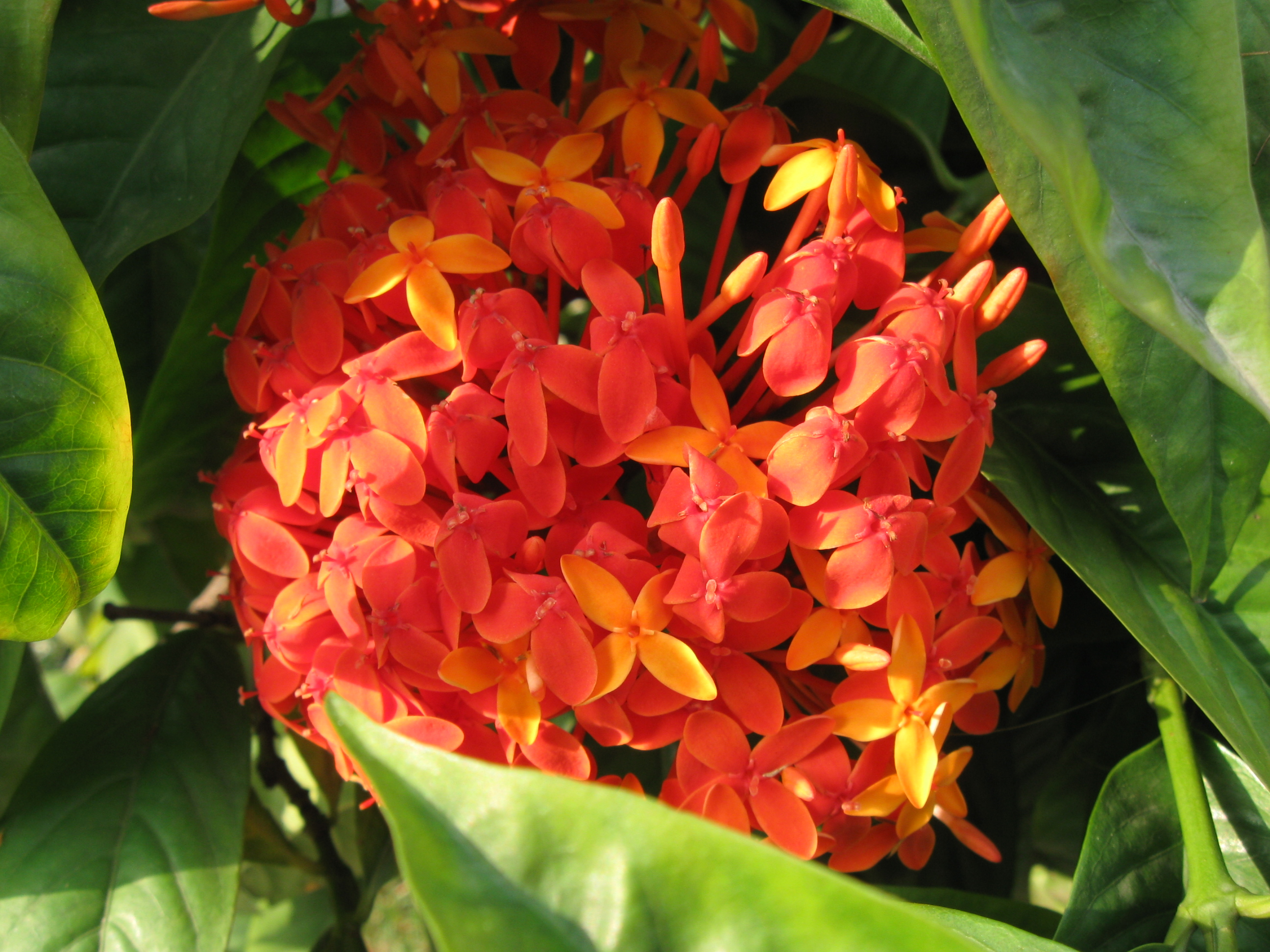 Ixora at Dhaka, Bangladesh.